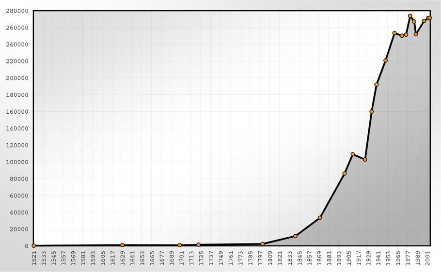 This image shows the population statistics of Wiesbaden (Germany).